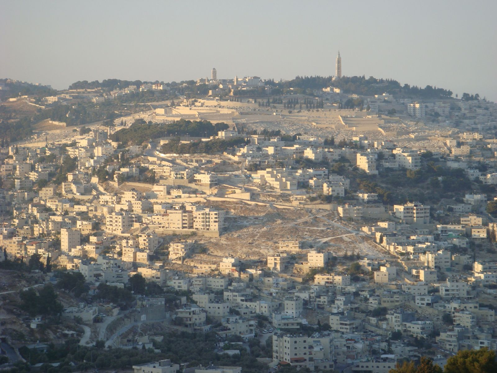 Mount of Olives, from Sherover-Hass-Goldman promenade in East Talpiot